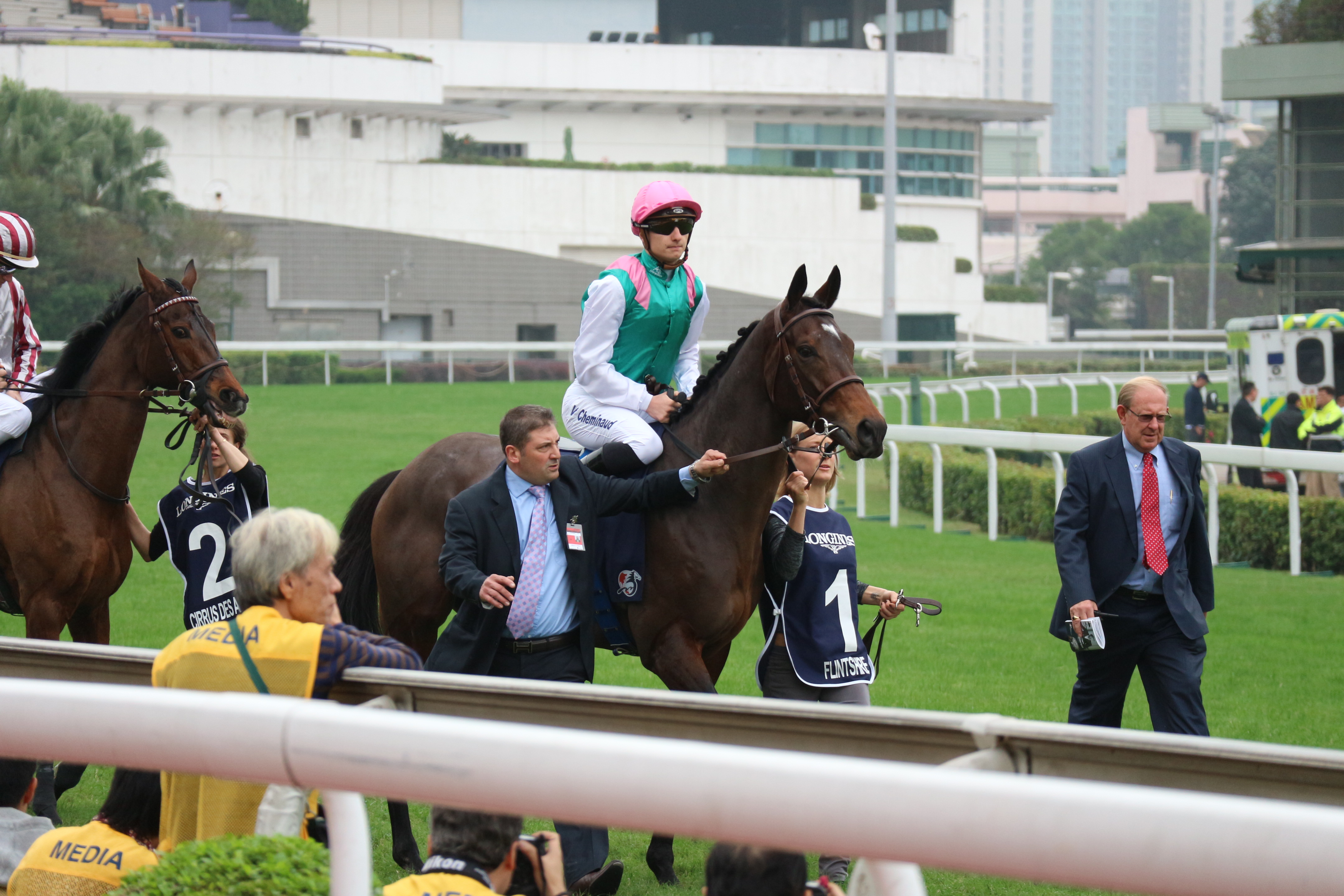 Flintshire, racehorse trained at France